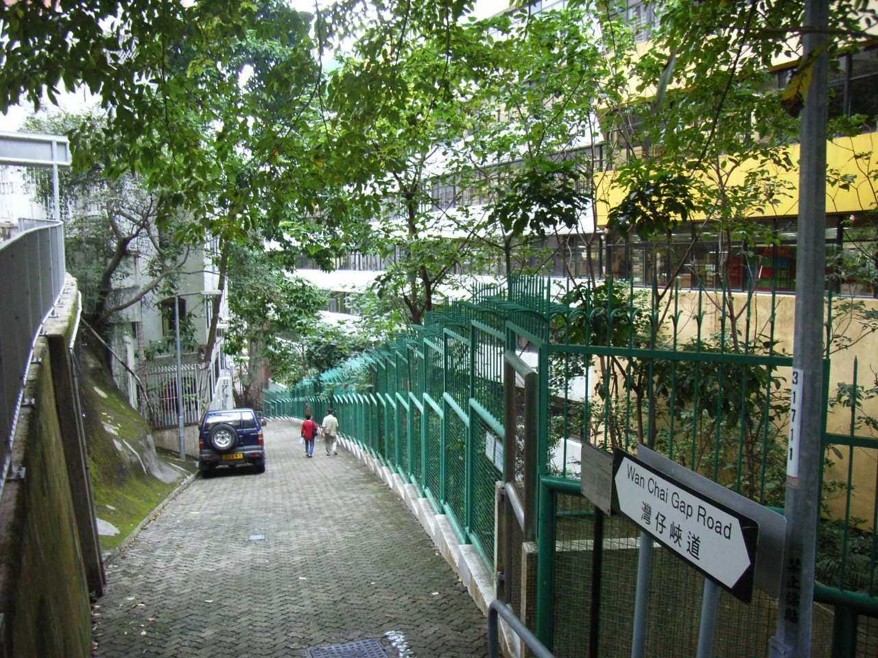 灣仔舊區街道 Wanchai old streets, Hong Kong. (A1 Wong East).